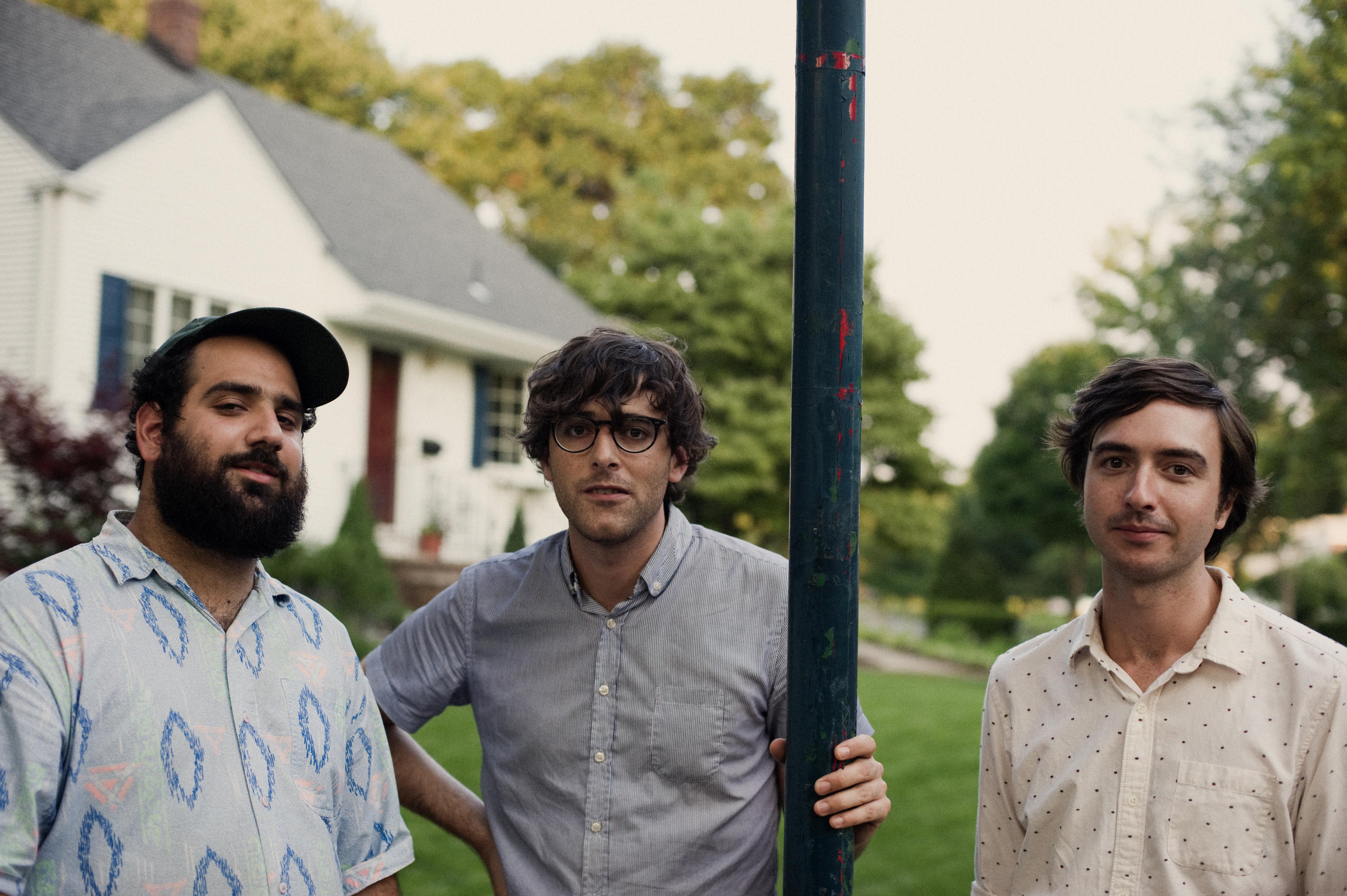 Days Photo Shoot